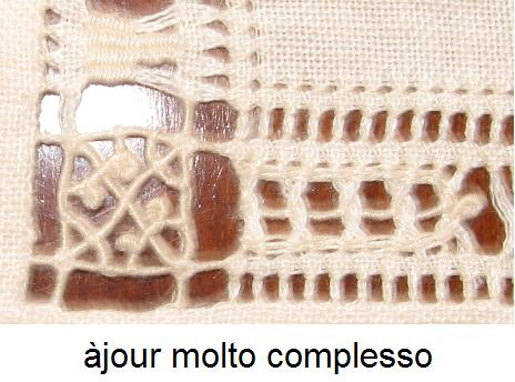 embroidery